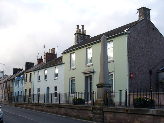 The Cameron Monument on Sanquhar High Street, commemorating the Sanquhar Declaration made by the Covenanter Richard Cameron and his supporters. They were militant Presbyterians who refused to acknowledge the authority of Charles II and the right of the Duke of York to succeed to the throne as James VII.